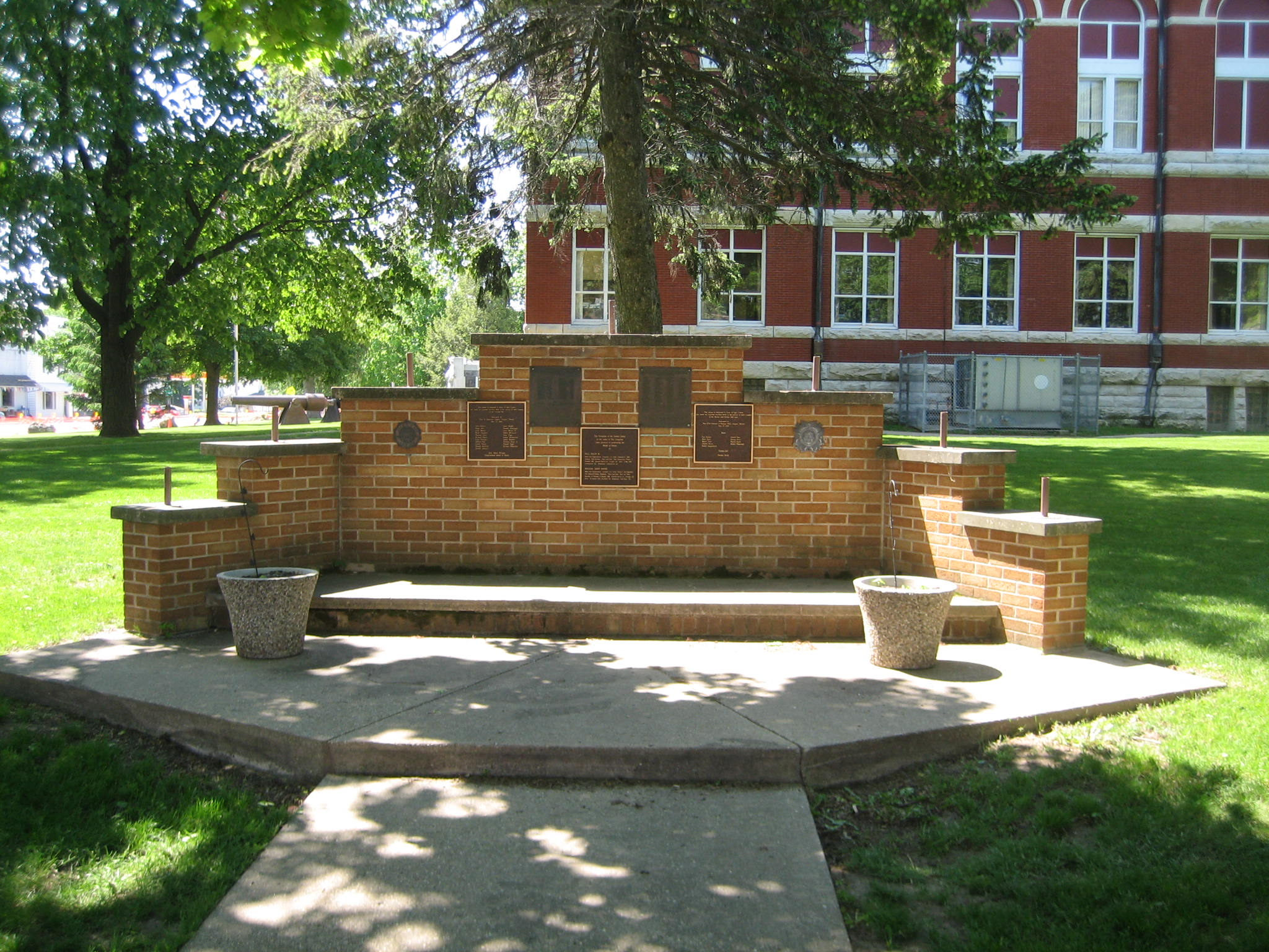 War Memorial, Oregon, Illinois, courthouse square. A contributing property to the Oregon Commercial Historic District, National Register of Historic Places.